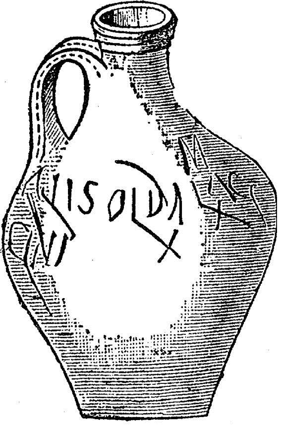 Logona or laguna. Earthenware jug with one handle, a long narrow neck, widened mouth, and swelling body.